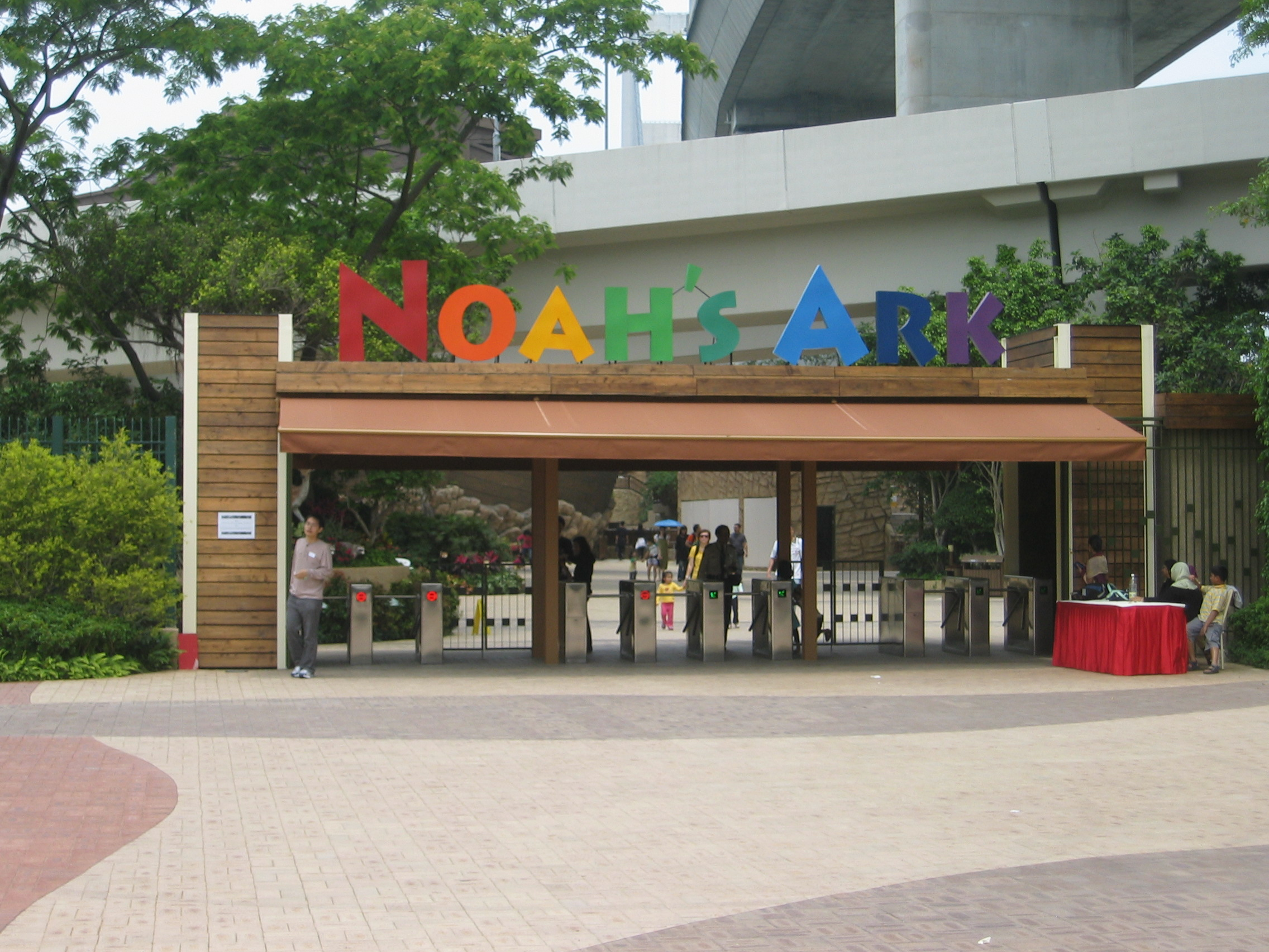 Noahs Ark, Ma Wan, New Territories, Hong Kong